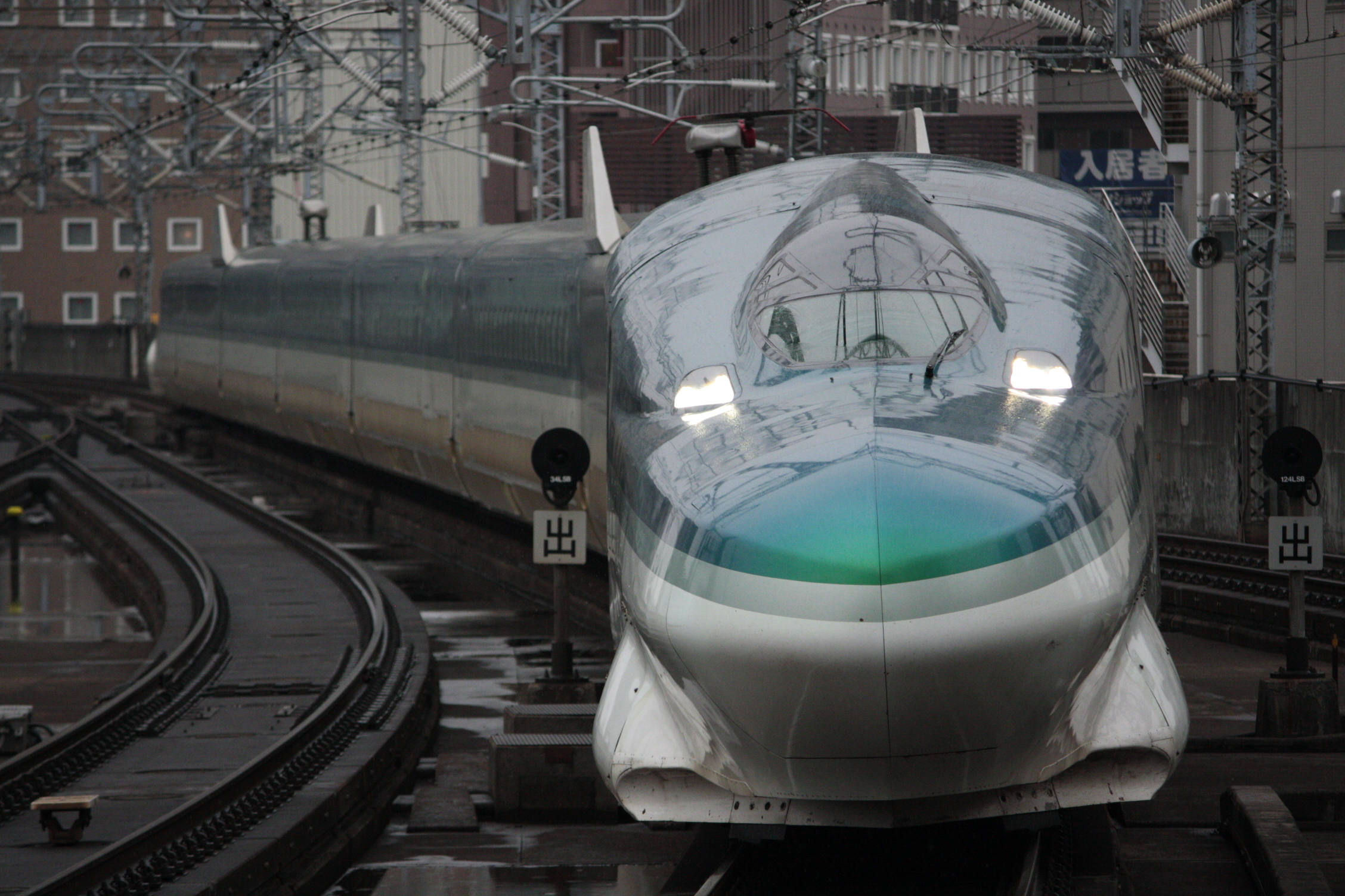 The JR East experimental Class E954 "Fastech 360S" shinkansen set approaching Sendai Station